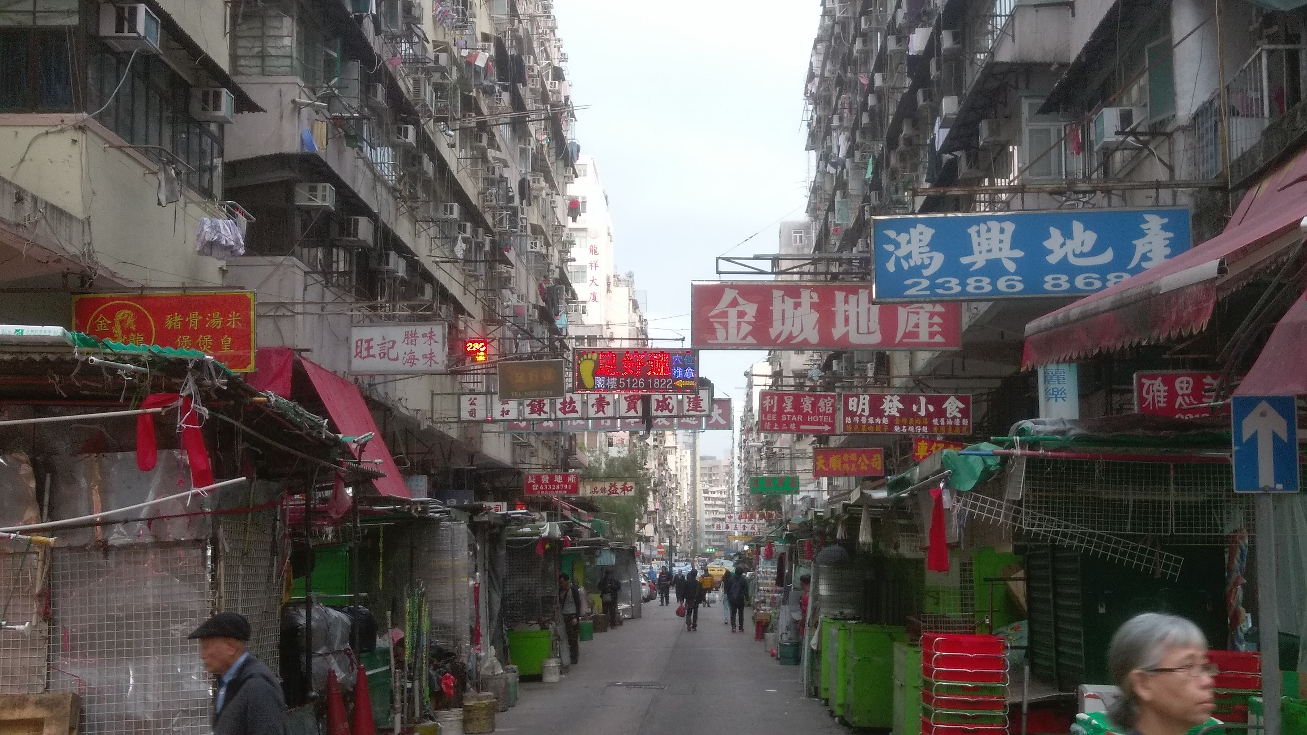 Street signs along the Ki Lung Street in Sham Shui Po, Hong Kong next to the intersection with Pei Ho Street.